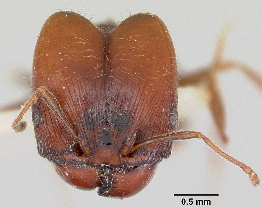 Head view of ant Pheidole macclendoni specimen casent0103470.